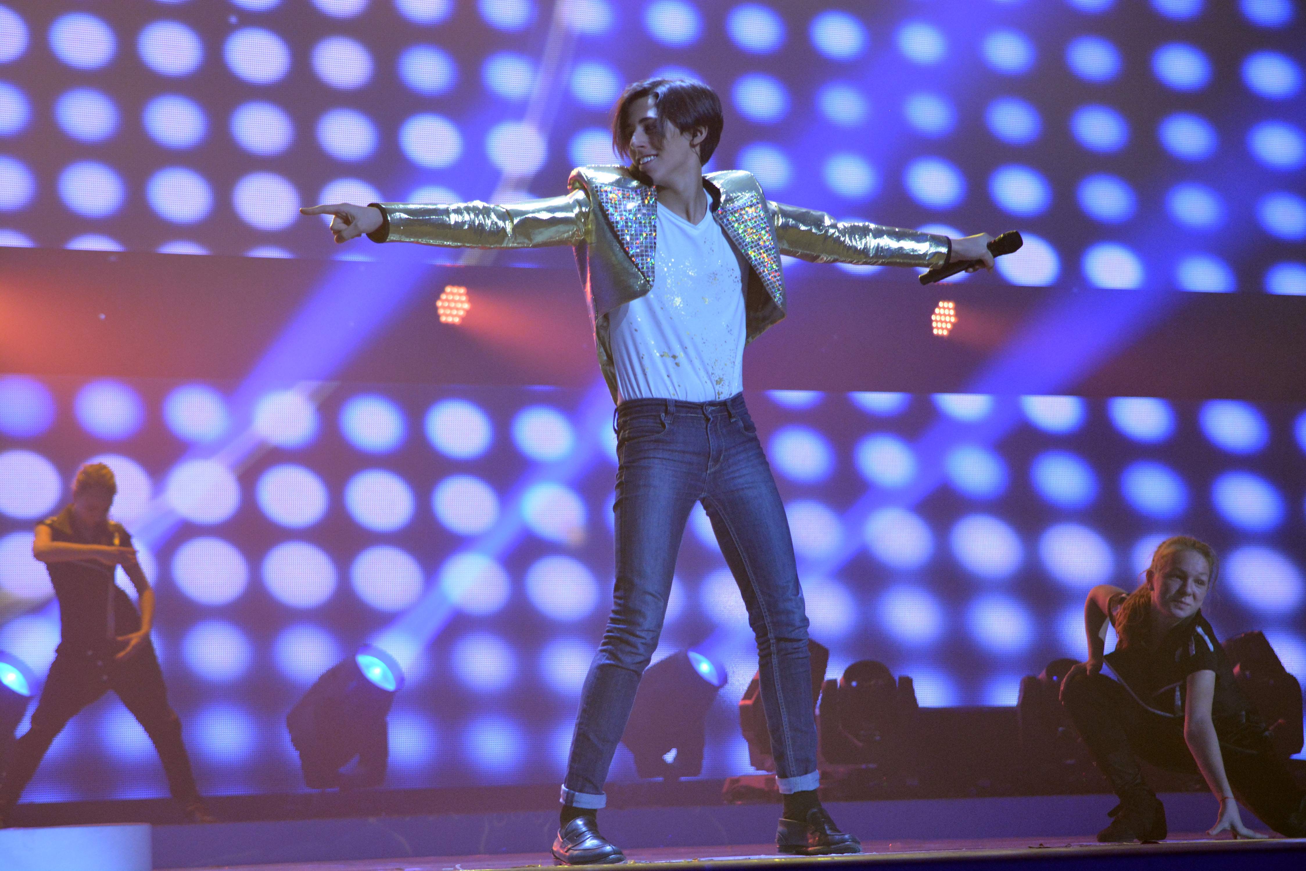 JESC 2013 (San Marino) Michele Perniola at rehearsal